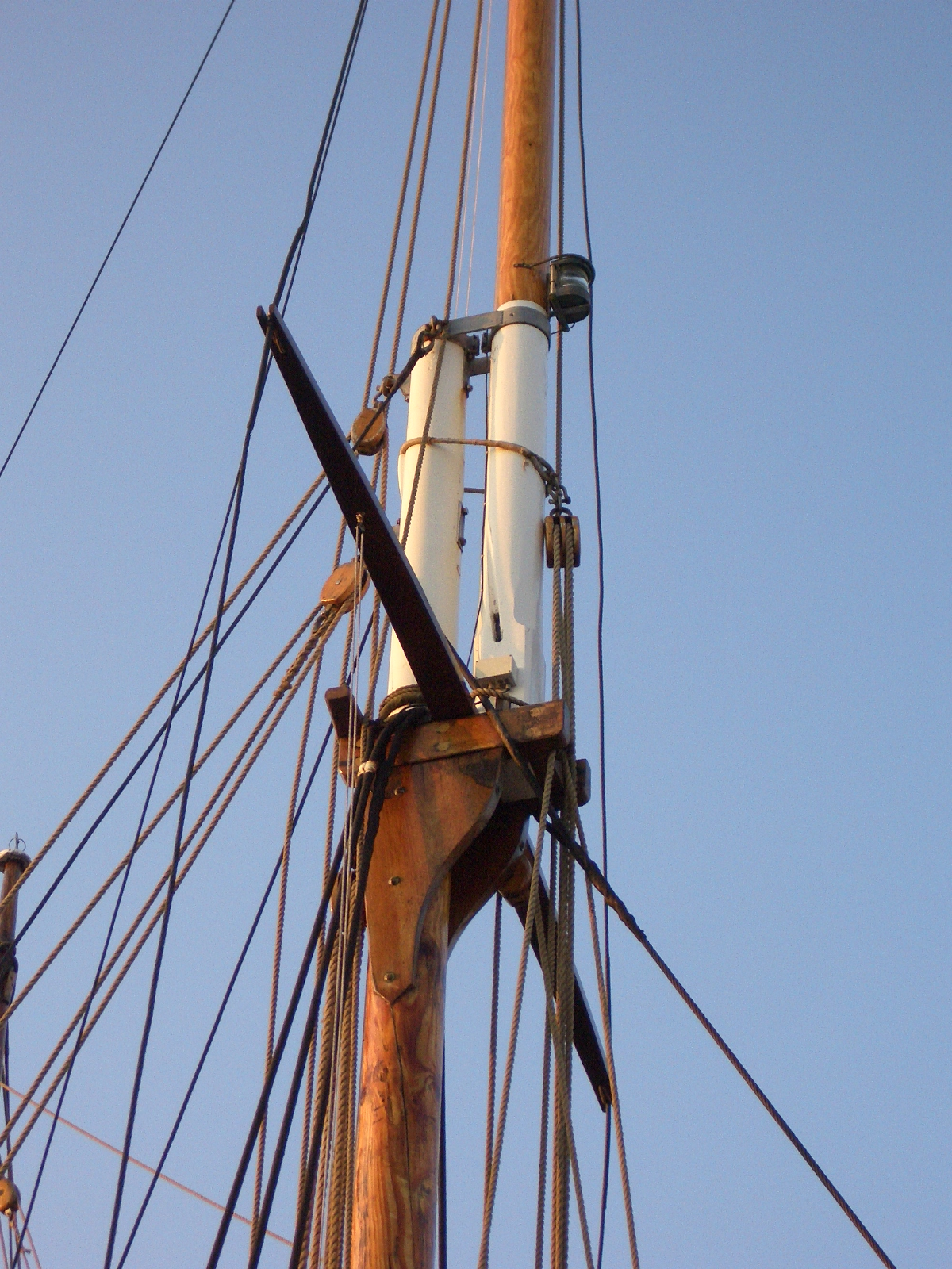 Cap /ship